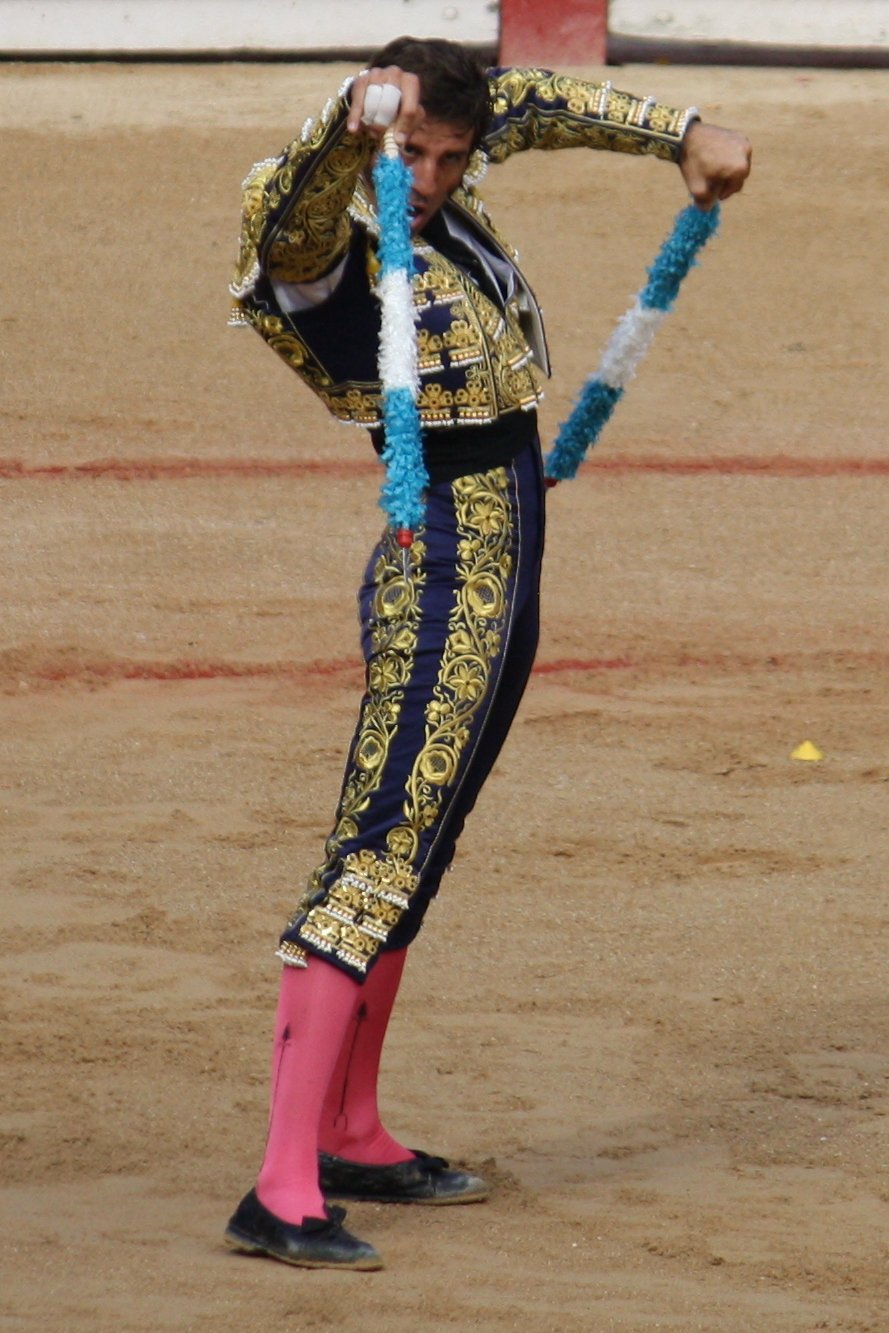 Photo of the matador Juan Jose Padilla taken in Pamplona, 12 July 2011, by Alexander Fiske-Harrison